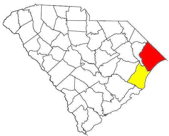 Locator map of the Myrtle Beach-Conway-Georgetown Combined Statistical Area in the eastern part of the U.S. state of South Carolina. The two components of the CSA are colored separately: Myrtle Beach-Conway-North Myrtle Beach Metropolitan Statistical Area: red Georgetown Micropolitan Statistical Area: yellow